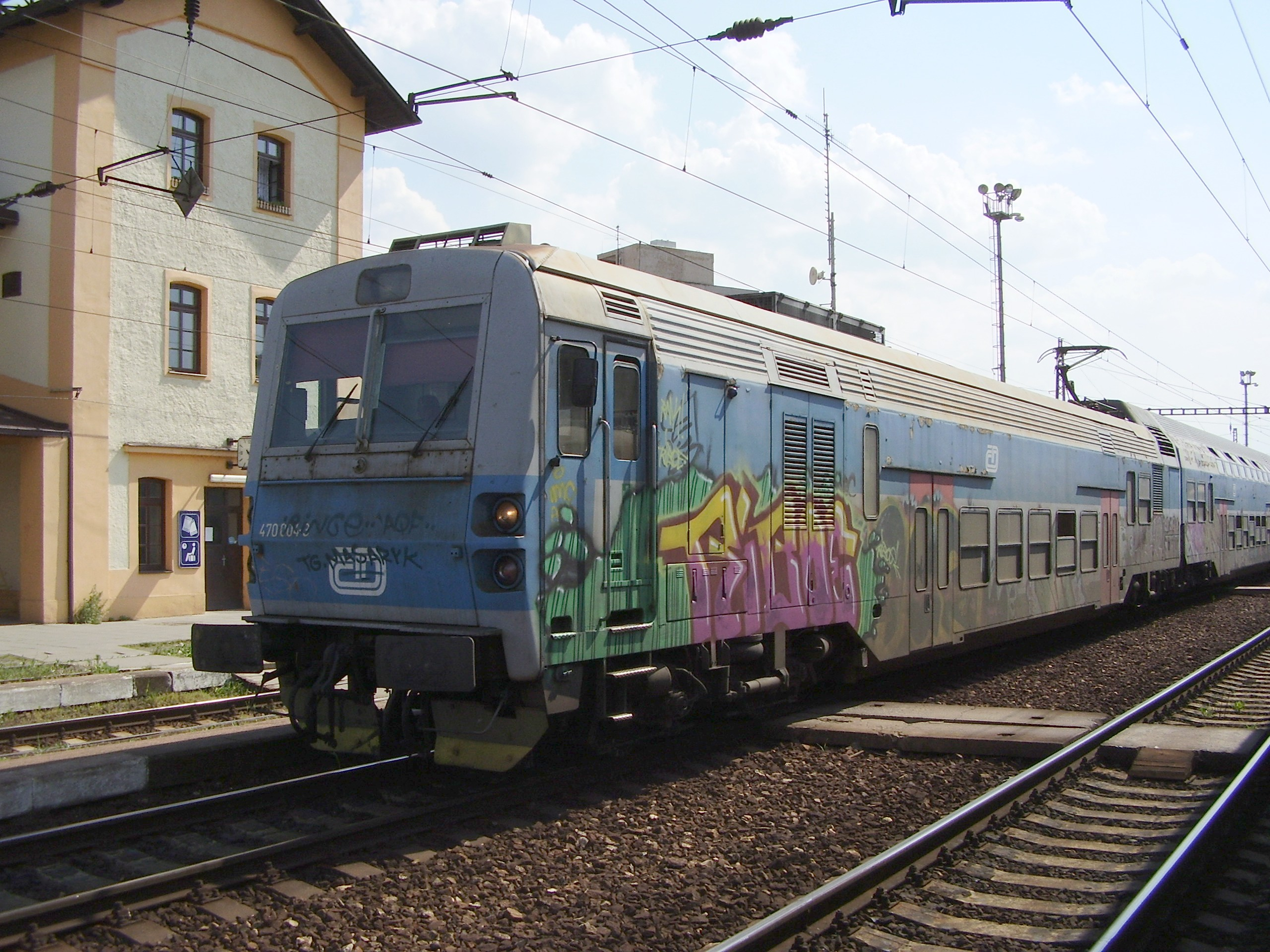 Electric multiple unit 470 ČD in Prague-Radotín